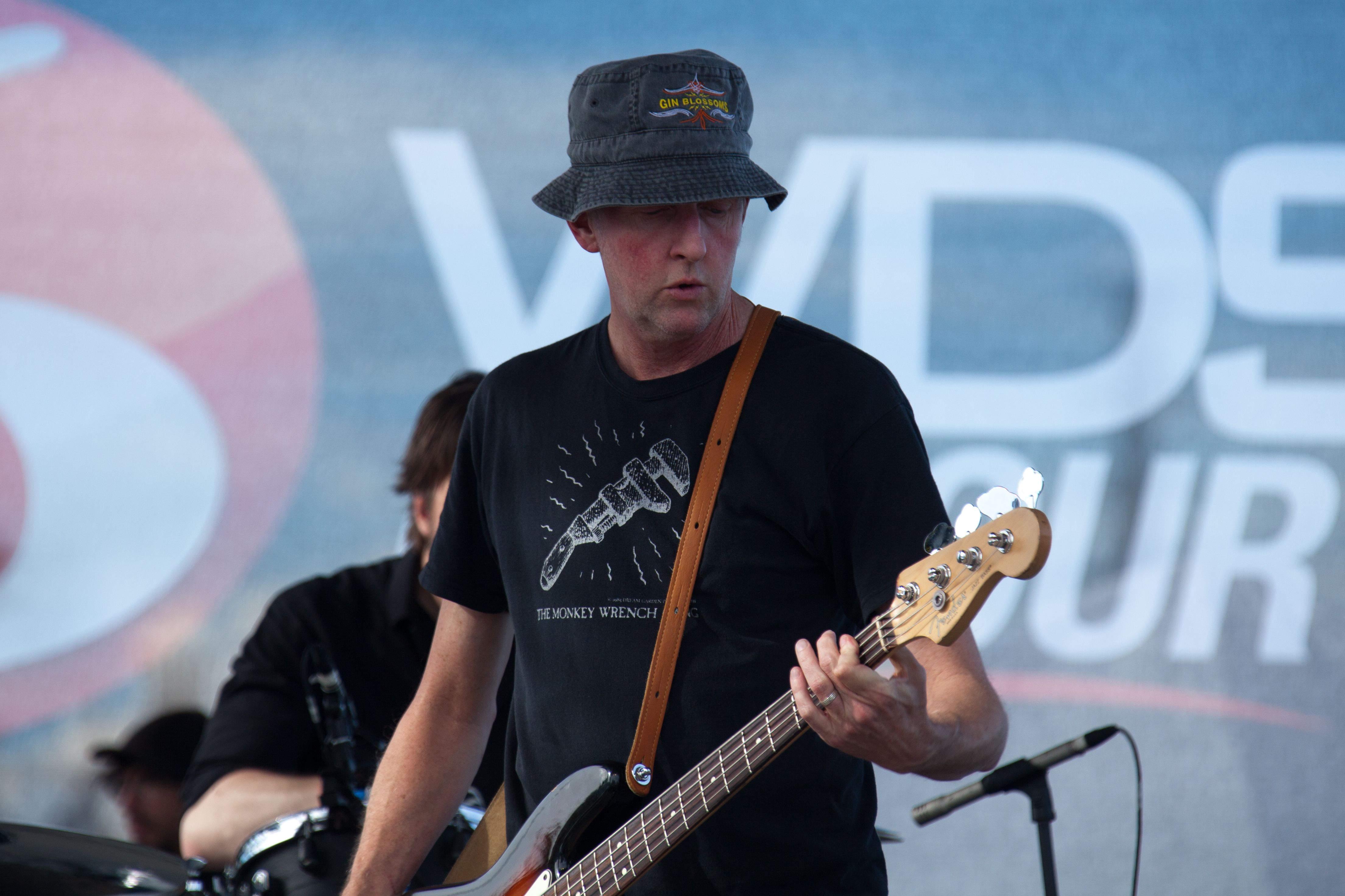 Bass Guitar Bill Leen performing on June 2, 2013 at the 2013 New Orleans Oysterfest